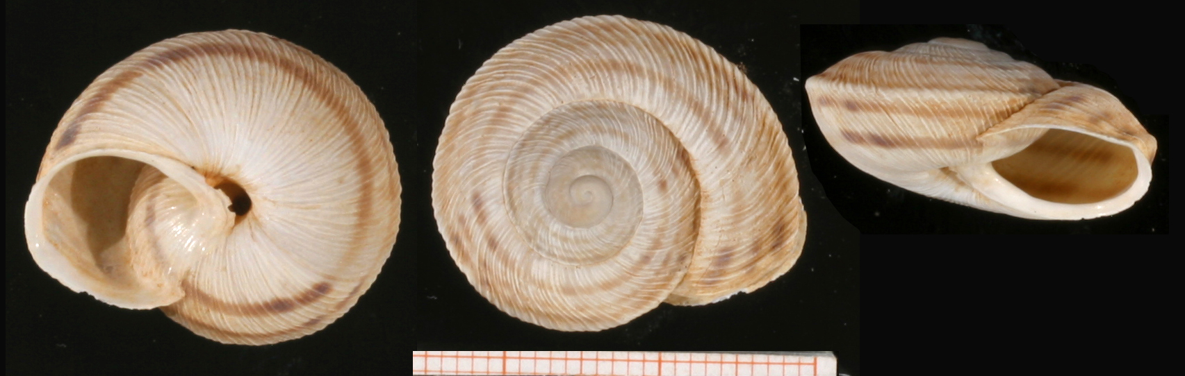 Photo of shells of Iberus marmoratus rositai. Scale in mm. Locality: Spain: Sierra Torcal near Málaga. Date: 1991.